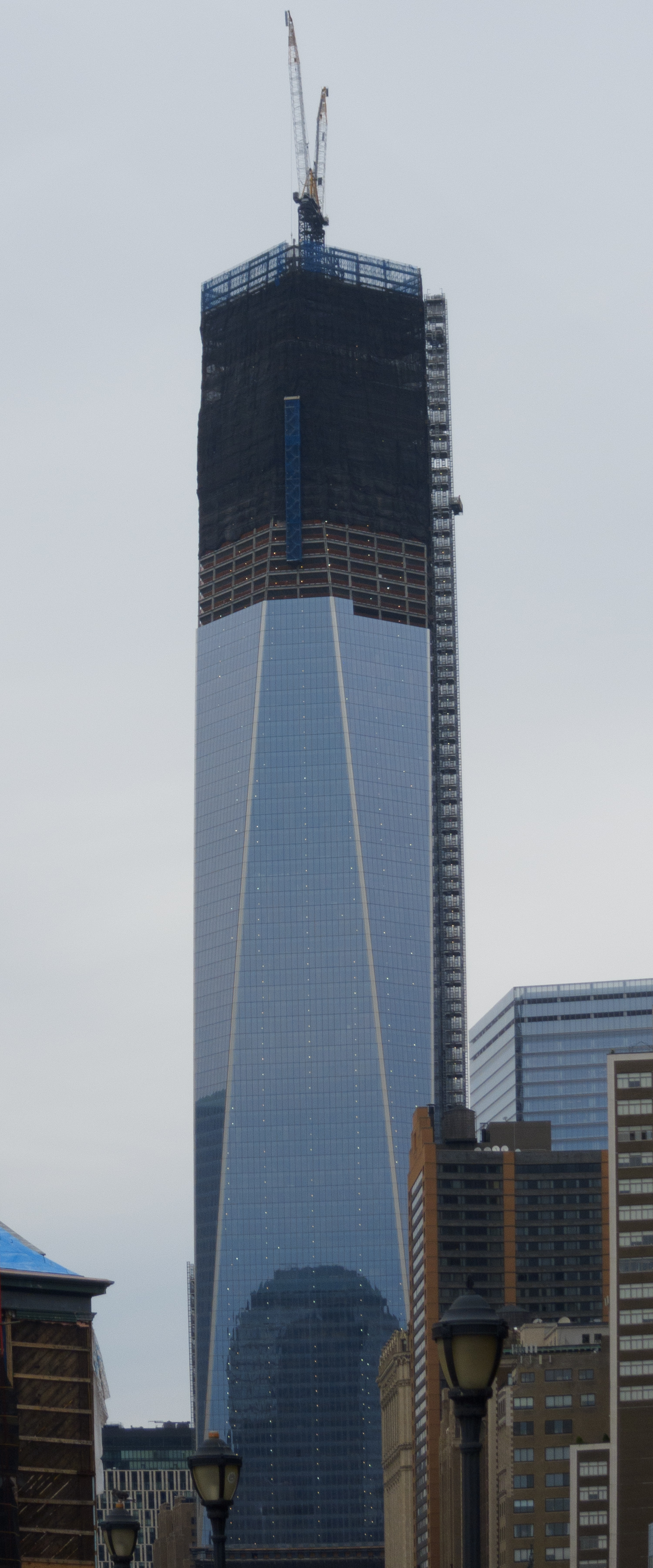 One World Trade Center in Lower Manhattan, New York City, under construction in August 2012.